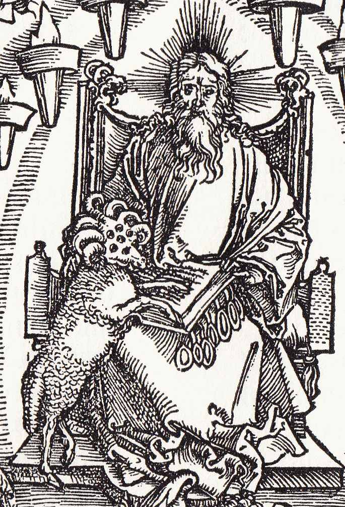 The Lamb of God and the Book with Seven Seals. Detail from a woodcut by Albrecht Dürer